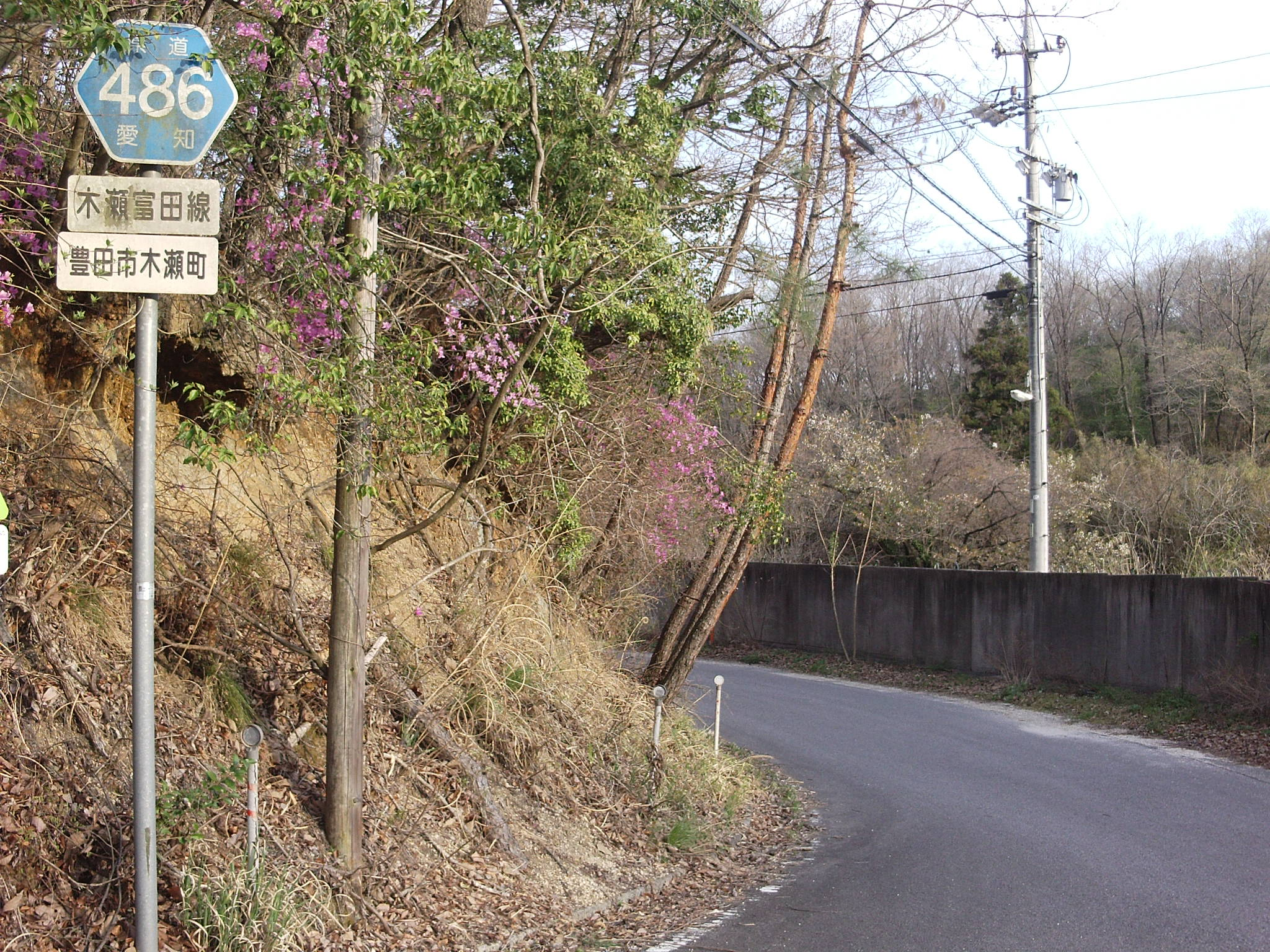 Aichi prefectural road No.486 in Kisecho, Toyota, Aichi.